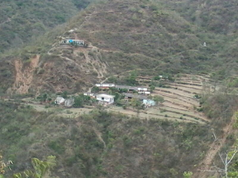 Maroda